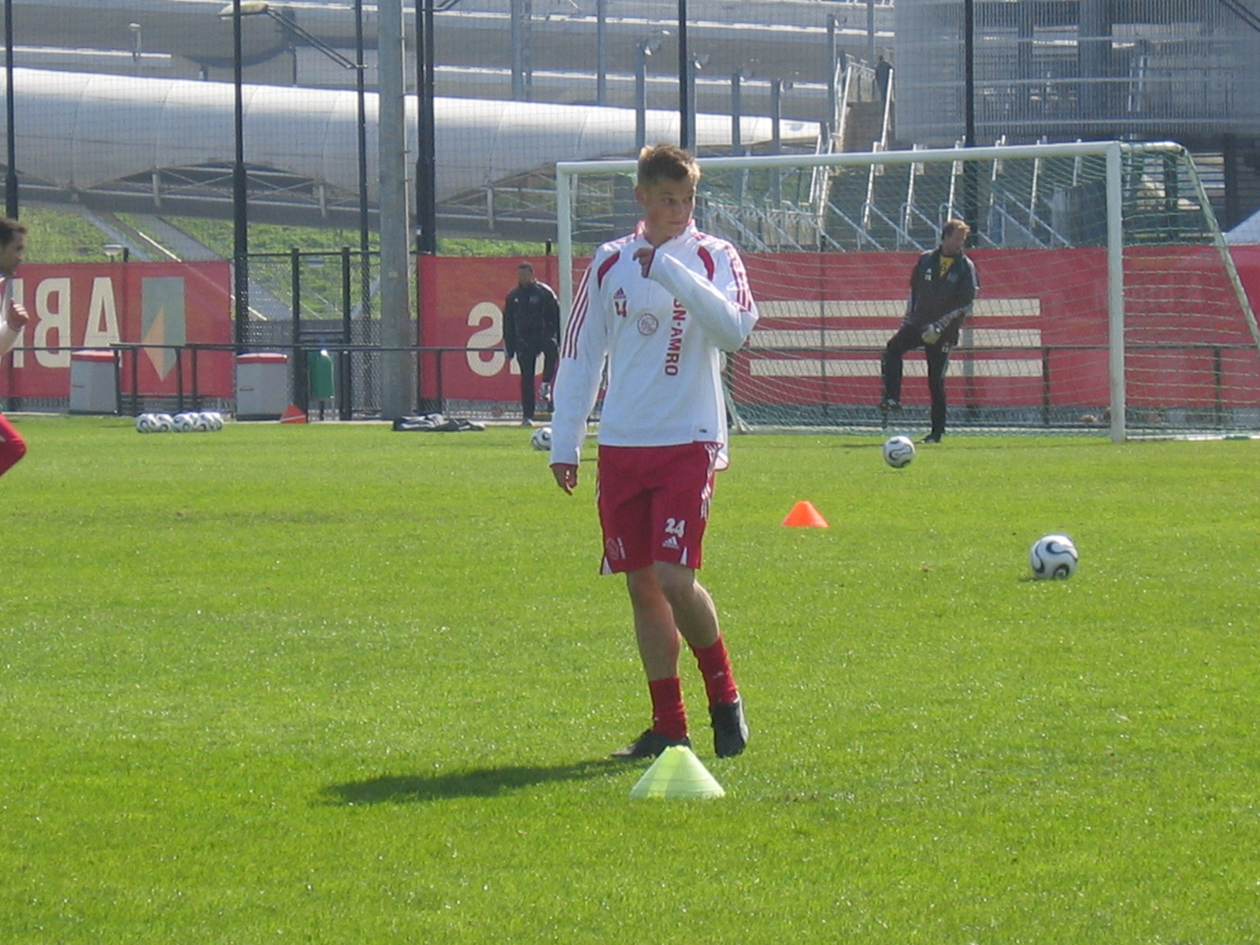 Self taken photo of Markus Rosenberg, a football player of Ajax Amsterdam.